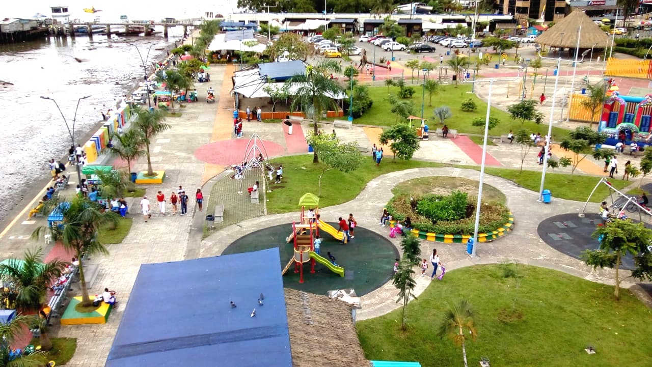 Malecón Buenaventura